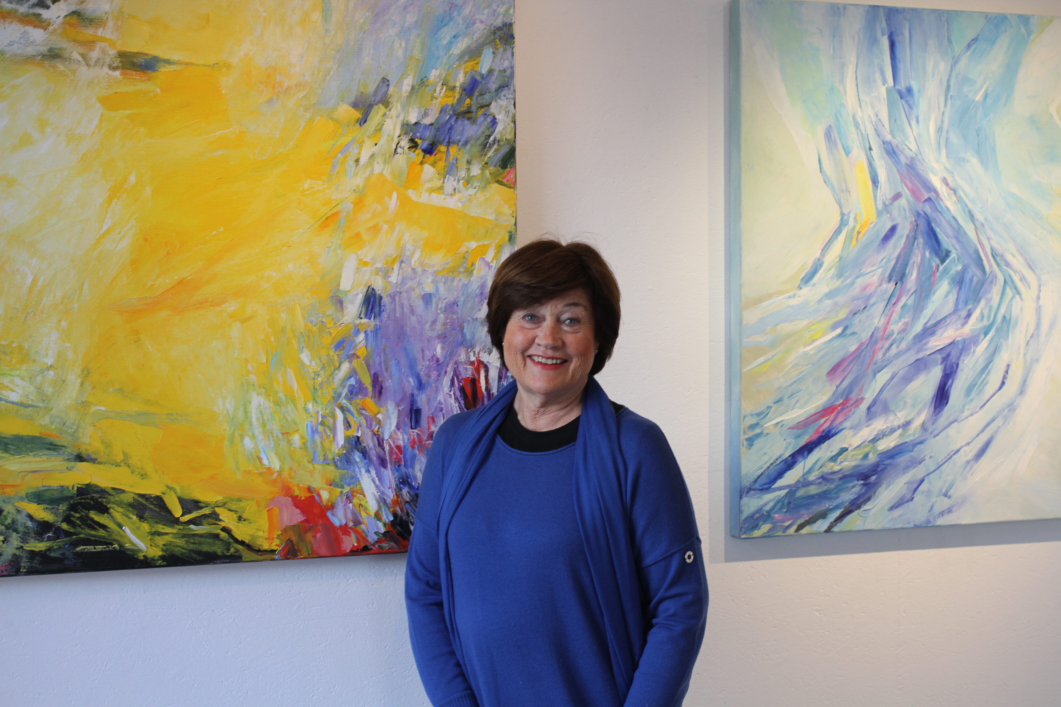 Henriette Hagelien, photo by Aldris Hamre 2017